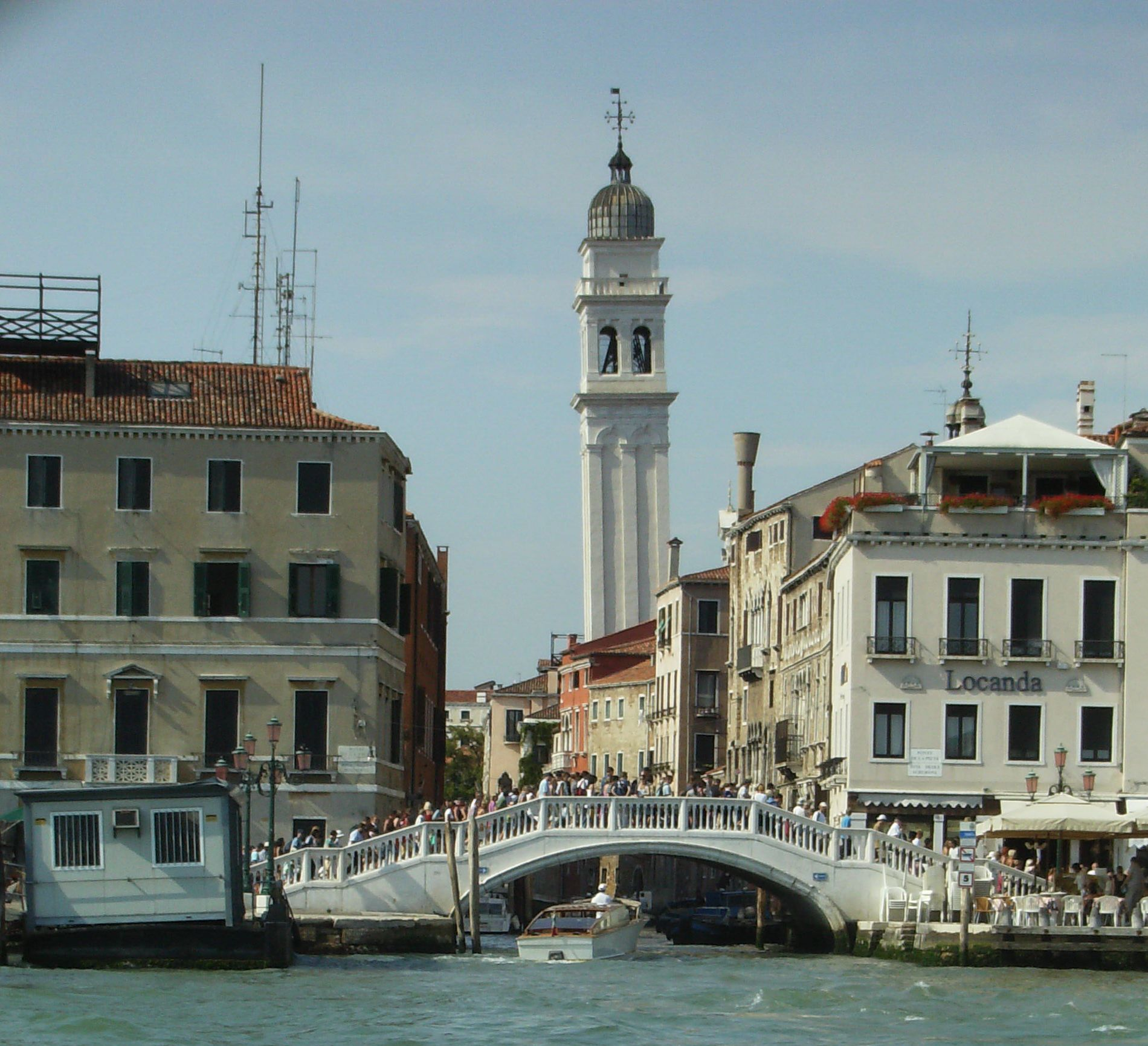 ponte della pieta venice